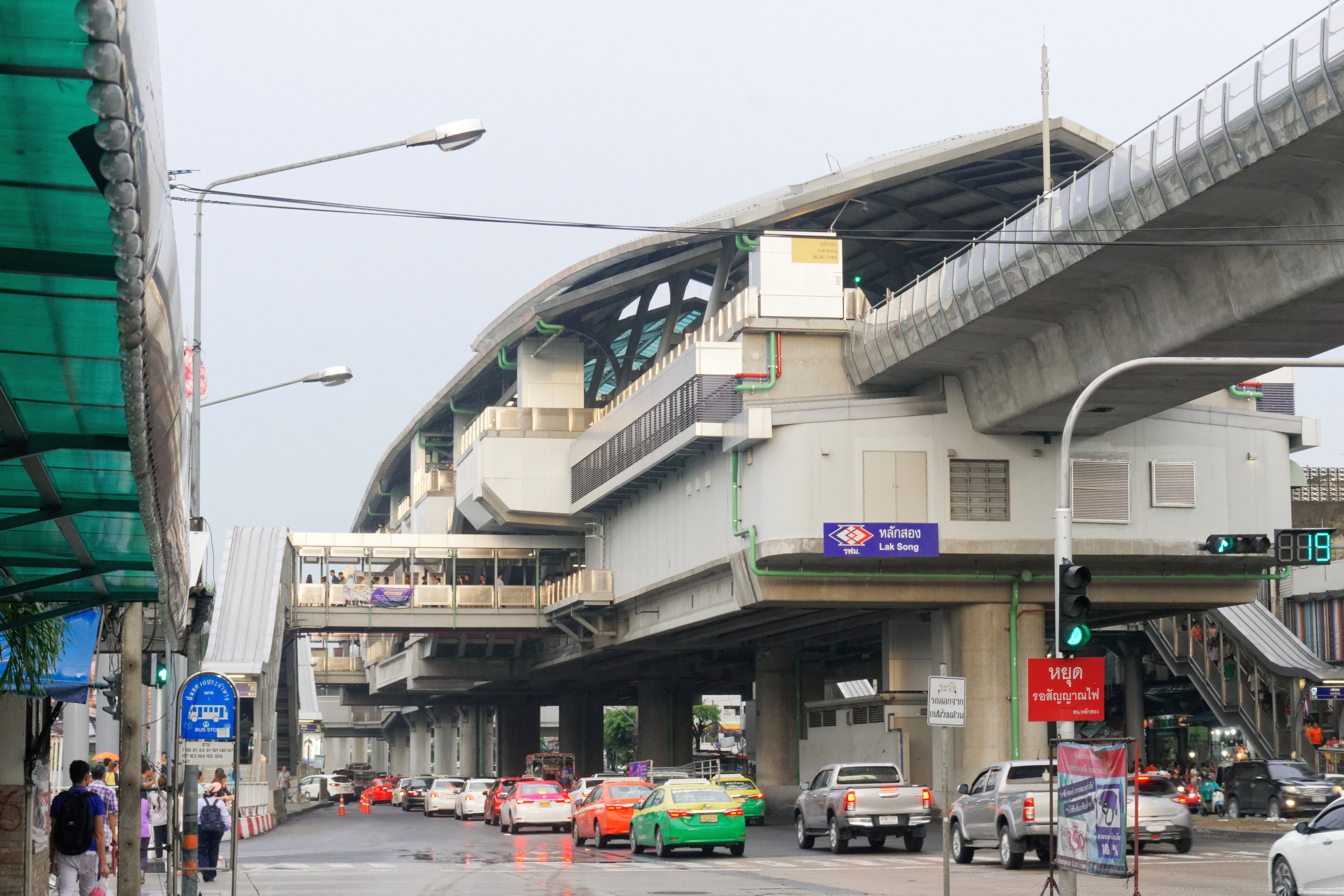 MRT Lak Song station: Station. View from the bus stop near Phetkasem - Kanchanaphisek Road intersection.